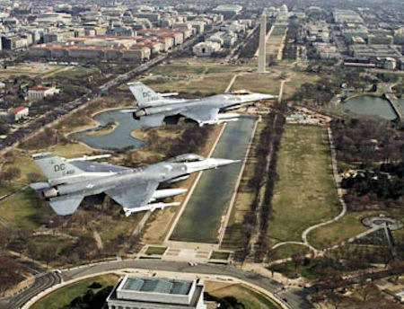 A pair of F-16s from the Washington, D.C. Air National Guard patrol over the capital, which has more no-fly zones than any other U.S. city. USAF/SRA Dennis Young